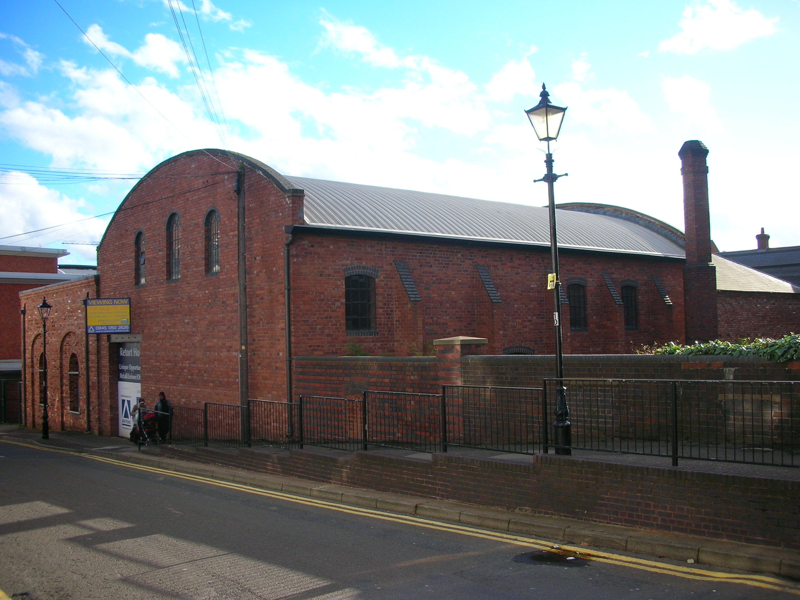 The former Gas Retort House at 39 Gas Street, Birmingham, England. A grade II* listed building, built 1822. The first gas works in Birmingham. Photographed by me 26 October 2006. Oosoom